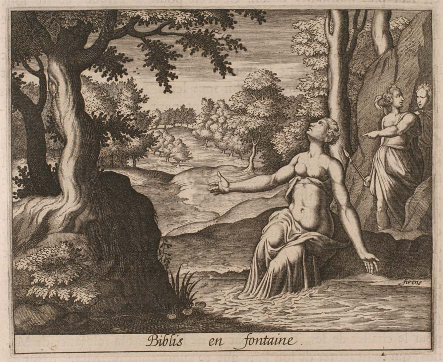 Nicolas, Renouard. Les Metamorphoses d'Ovide Traduites en Prose Francoise, et de nouveau soigneusement reveues, avec XV. Discours 1651. Byblis changed into a fountain: after looking for Caunus everywhere, Byblis at last lies down, bathed in tears, and is changed into a fountain (Ovid, Metamorphoses IX 663). IllustrationNo: 76 [1]